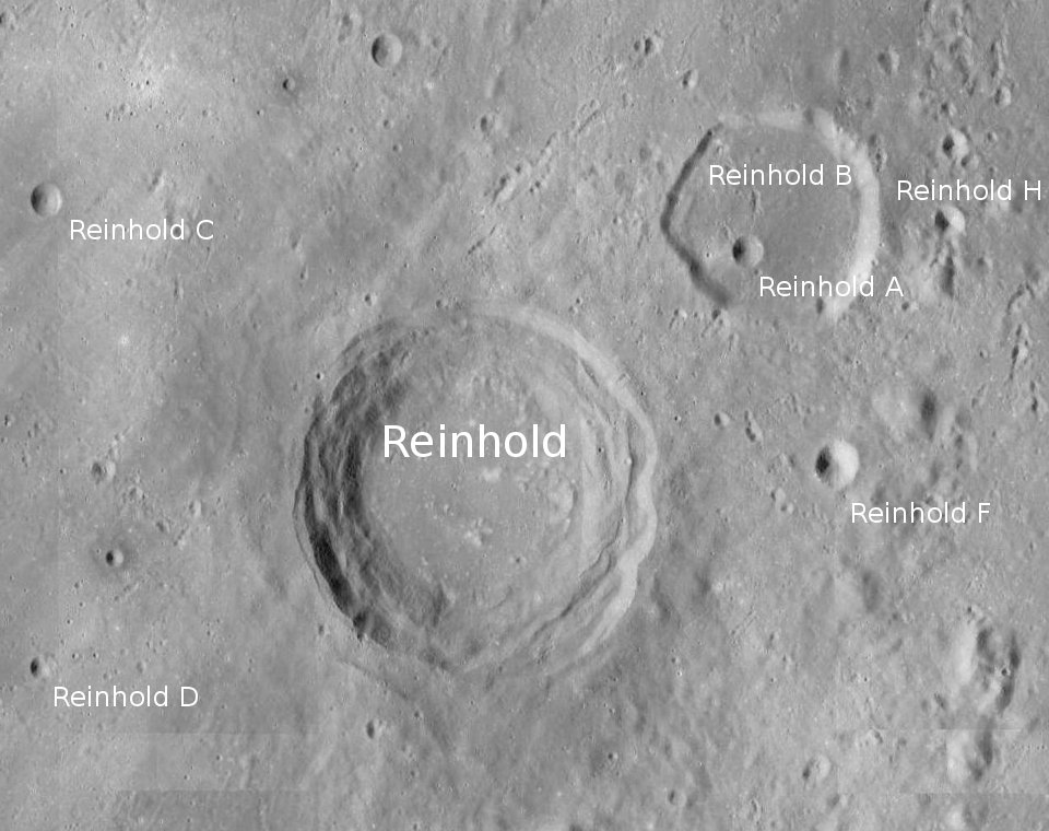 Crater Reinhold (detail of LRO - WAC global moon mosaic; Mercator projection)